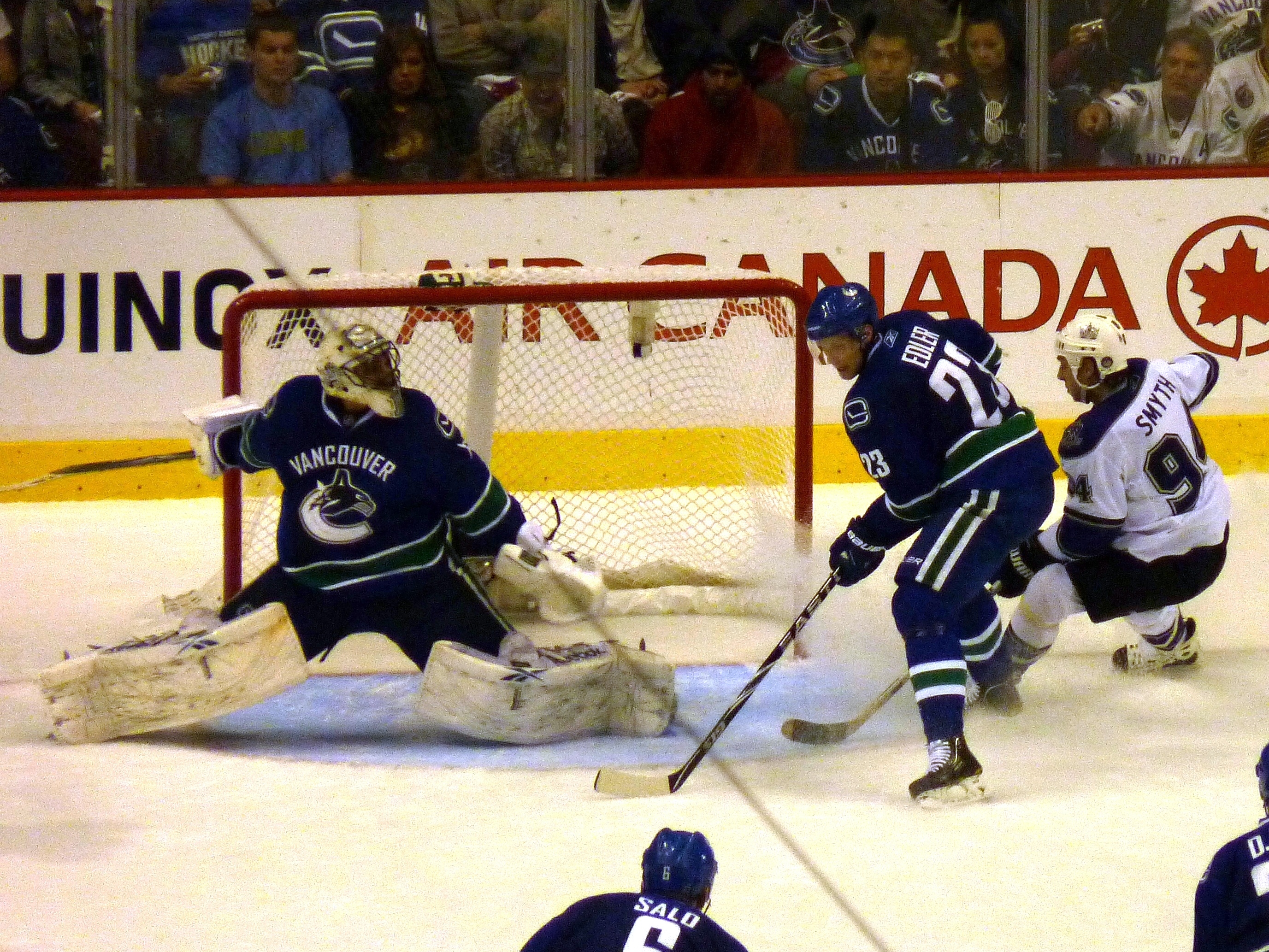 Vancouver Canucks goalie Roberto Luongo stretches across the net to get into position as teammate Alex Edler checks Los Angeles Kings forward Ryan Smyth.